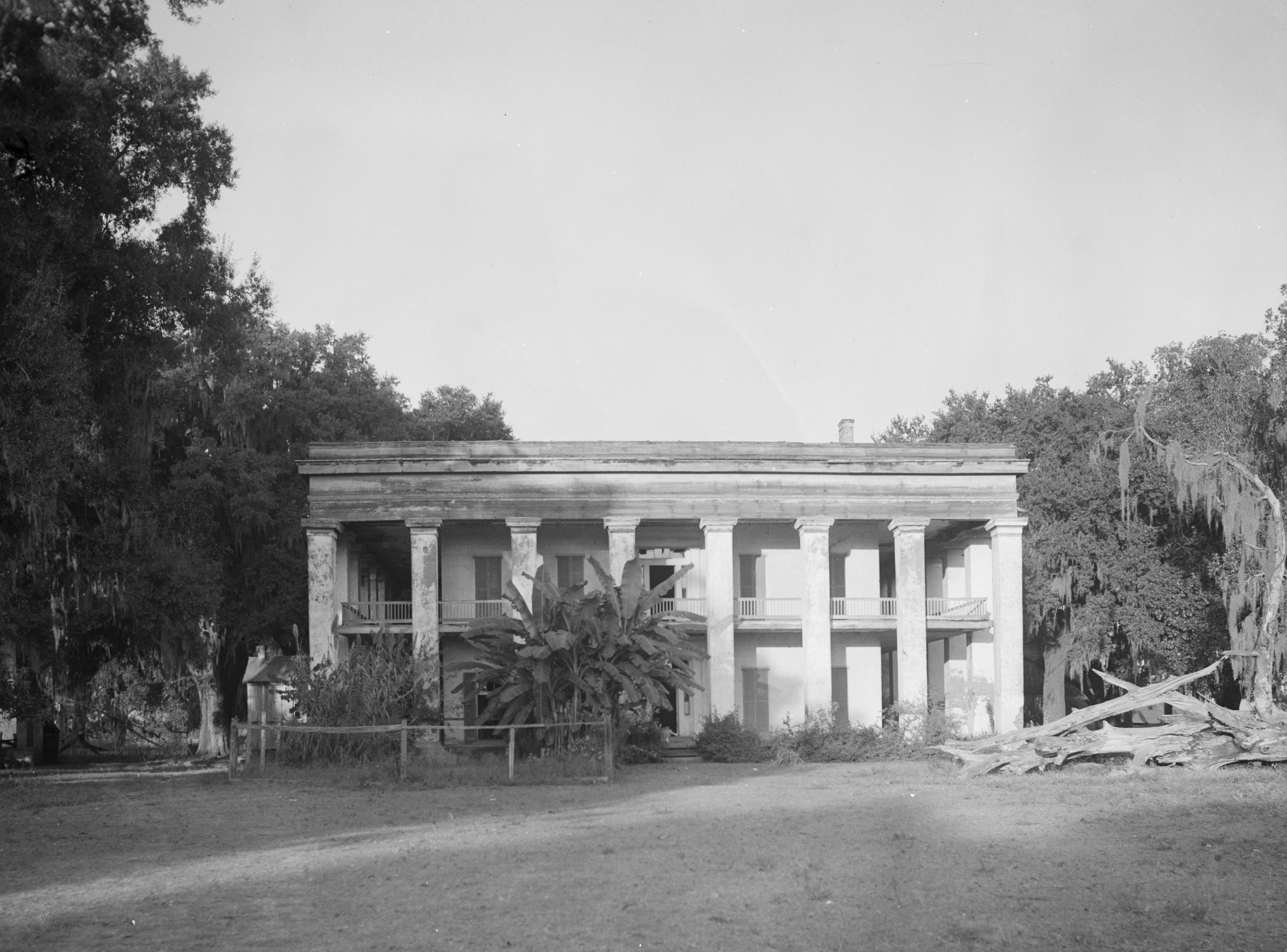 Front of Ashland, located along Louisiana Highway 75 south of Geismar in Ascension Parish, Louisiana, United States. Built in 1841, it is listed on the National Register of Historic Places.